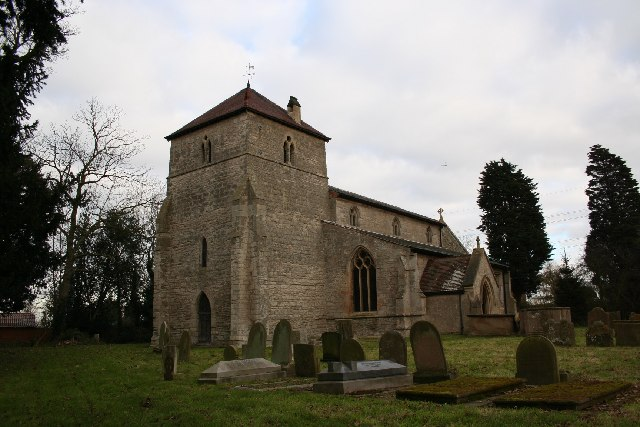 St Gregory's parish church, Fledborough, Nottinghamshire, seen from the southwest